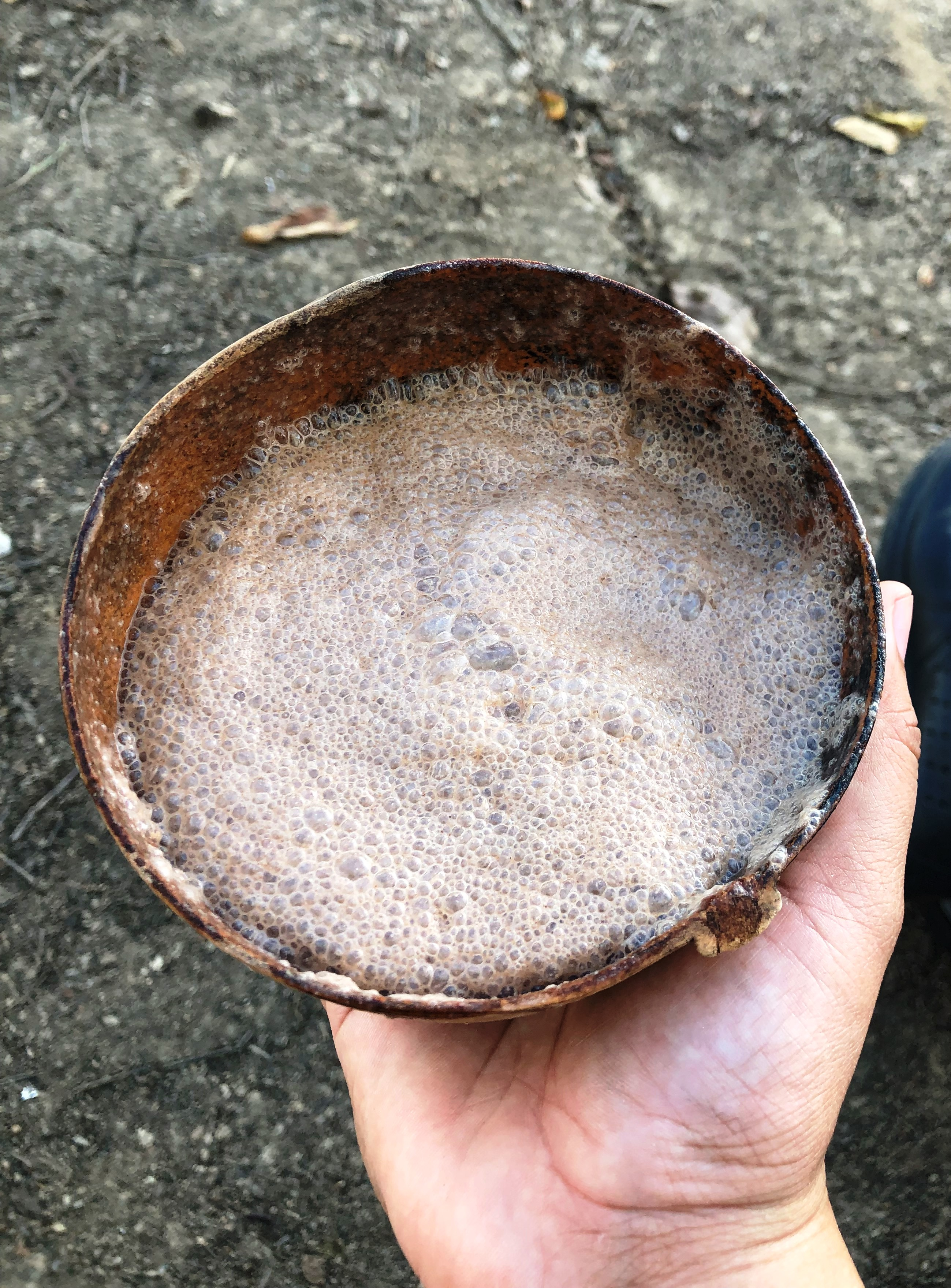 Refreshing and Delicius Popo